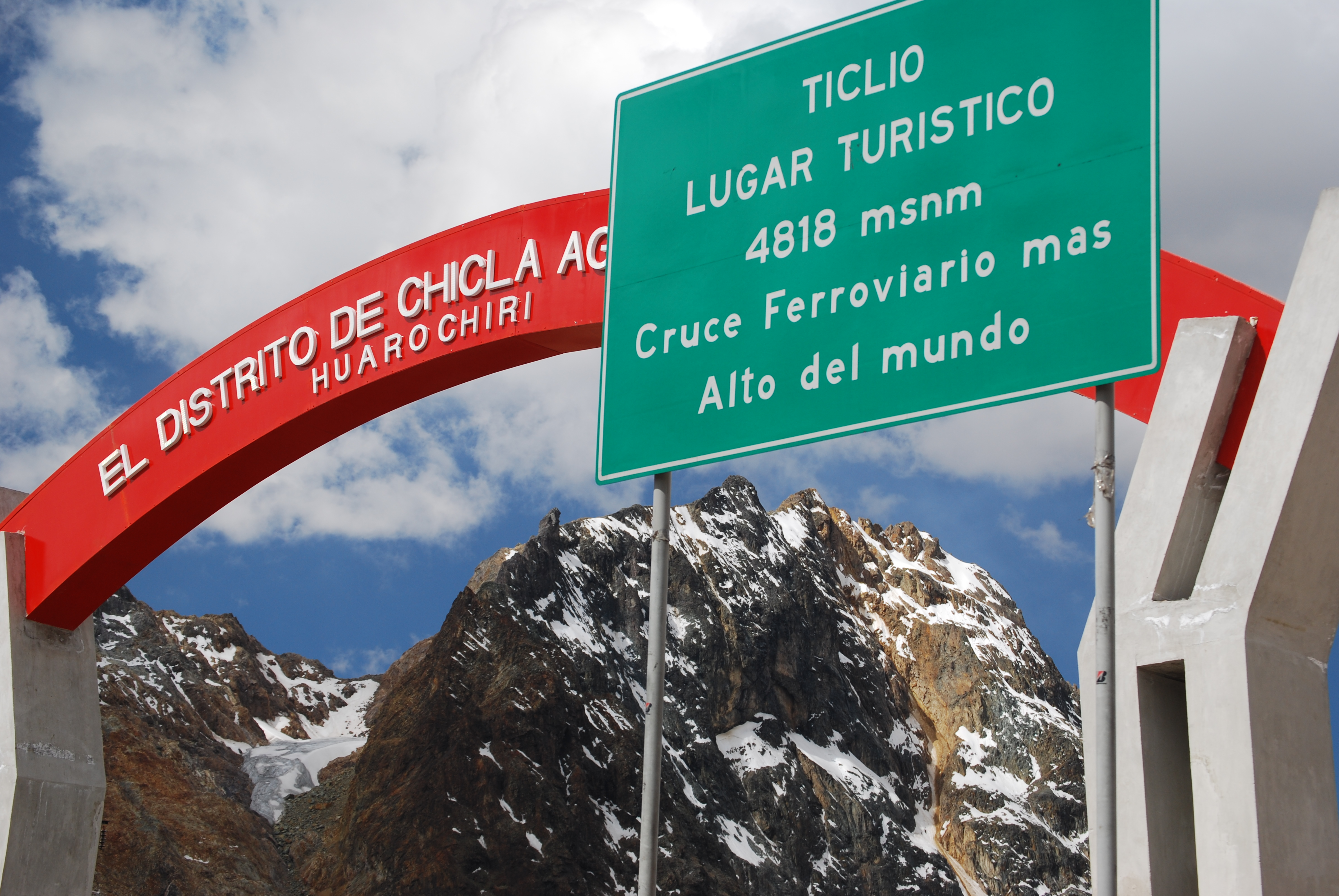 Ticlio railway pass, Peru. The second highest railway on the world.